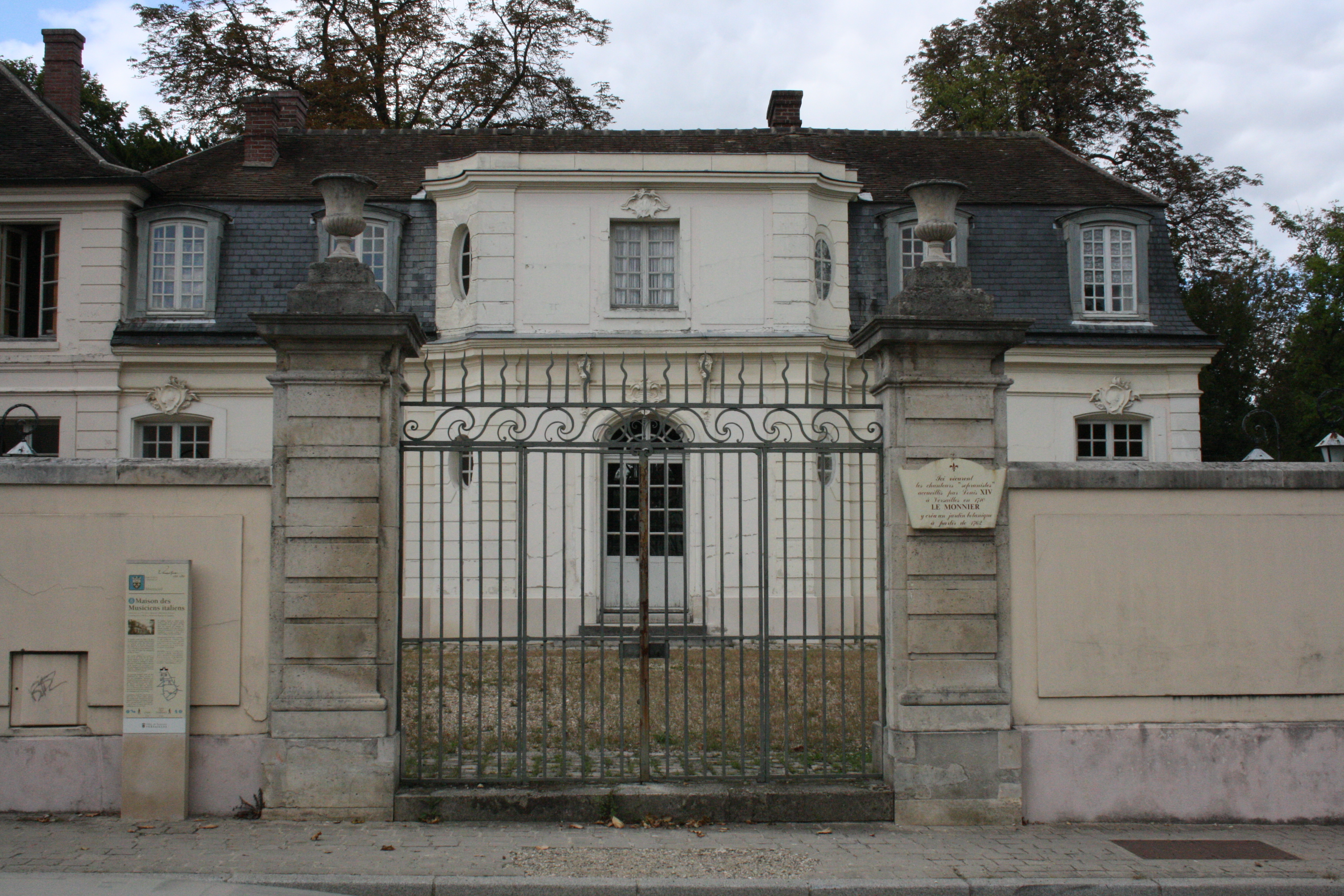 Maison des musiciens italiens is a building located 15 Champ-Lagarde street in Versailles, France.